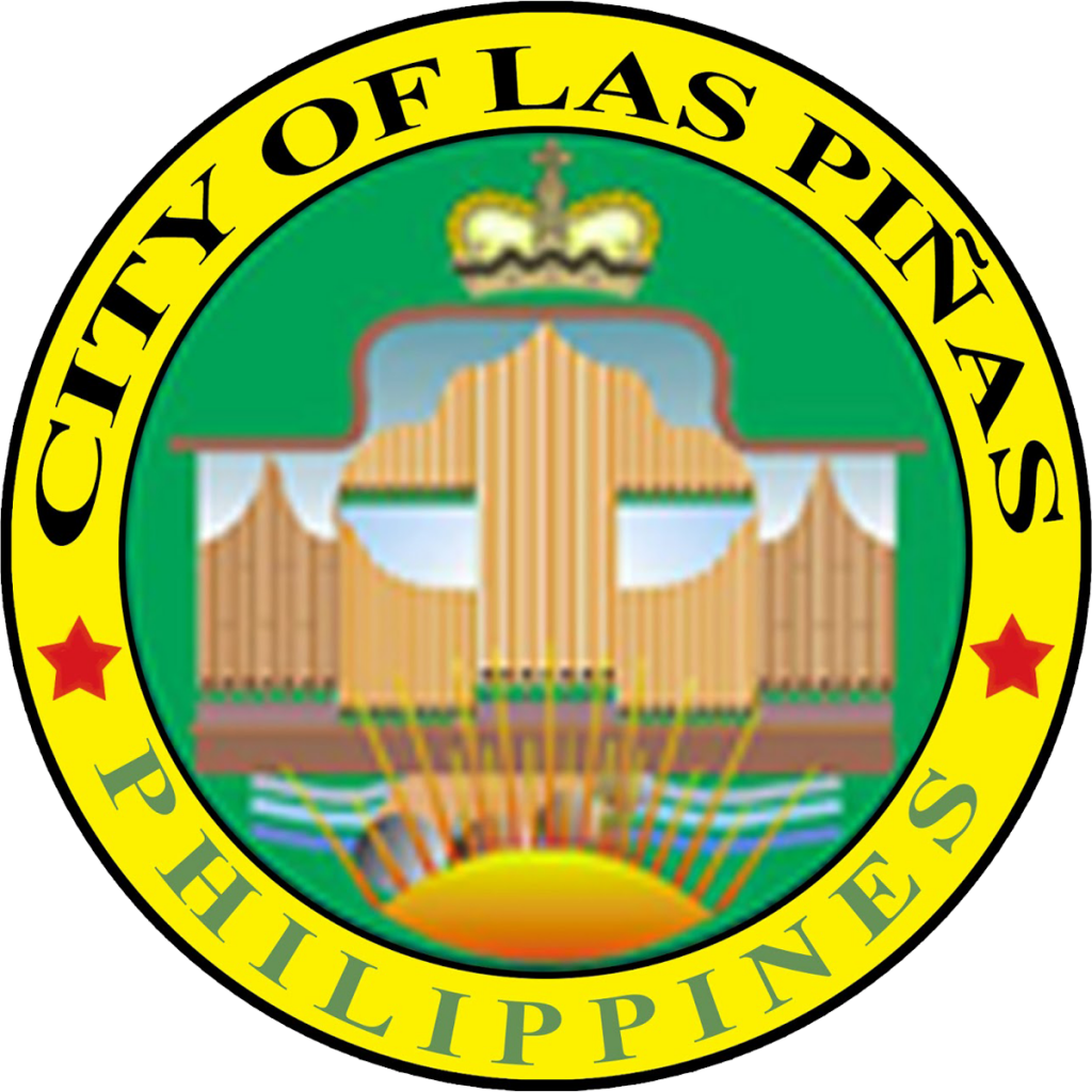 Las Piñas seal was currently used since its cityhood in 1997.